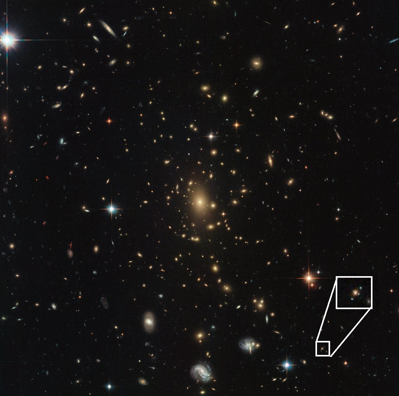 Einstein's cross J1011+0143